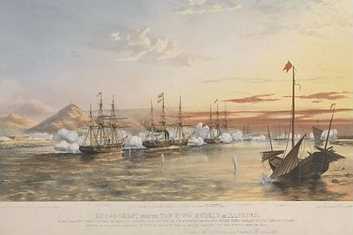 Engagement with the Tae-Ping Rebels at Nanking, By Her Majesty's Ships Furious, Retribution, Cruizer, Dove and Lee on the 20 November 1858, during their passage up the Yang-Tse-Kiang conveying... the Earl of Elgin...